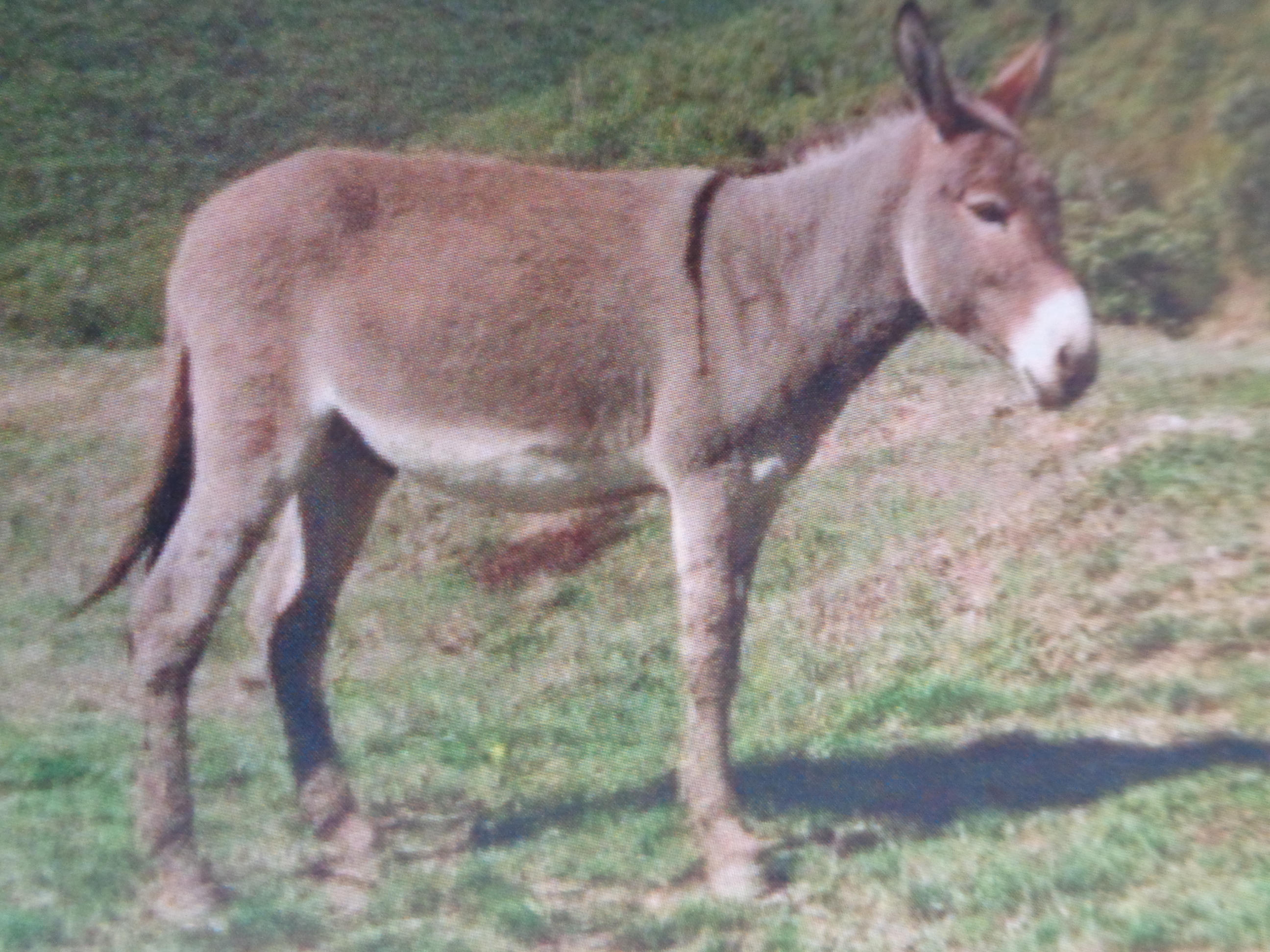 North-Adriatic donkey breed, Croatia